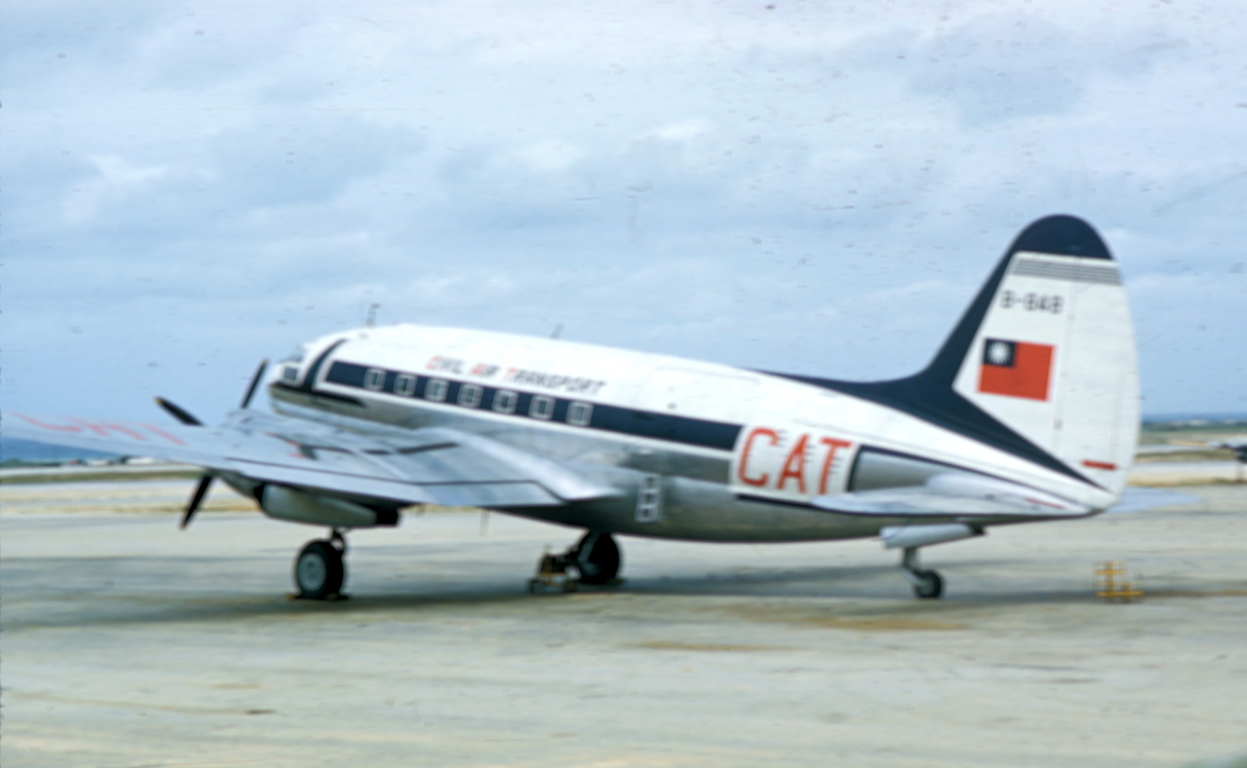 A Curtiss C-46 Commando (C-46F-1-CU s/n 44-78648?) operated by the CIA-affiliated Civil Air Transport (CAT), forerunner of the Air America. The CAT flew support missions for the French at Dien Bien Phu in 1954 using Fairchild C-119s, and elsewhere in Indochina with other aircraft like this C-46.